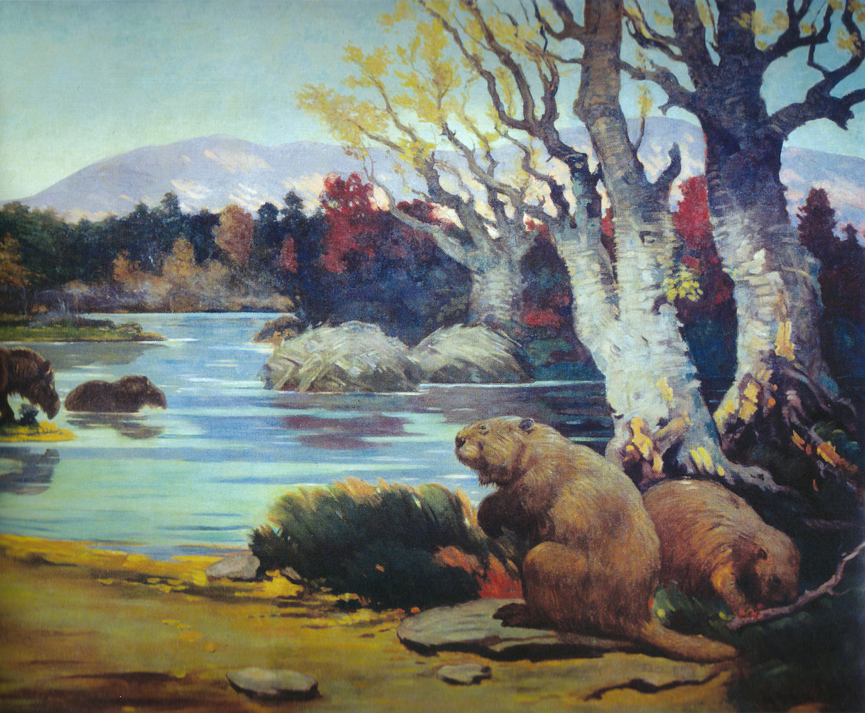 Castoroides in New Jersey.